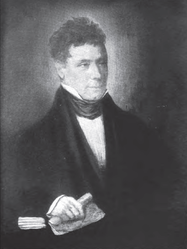 An Ohio politician named William Creighton, Jr.